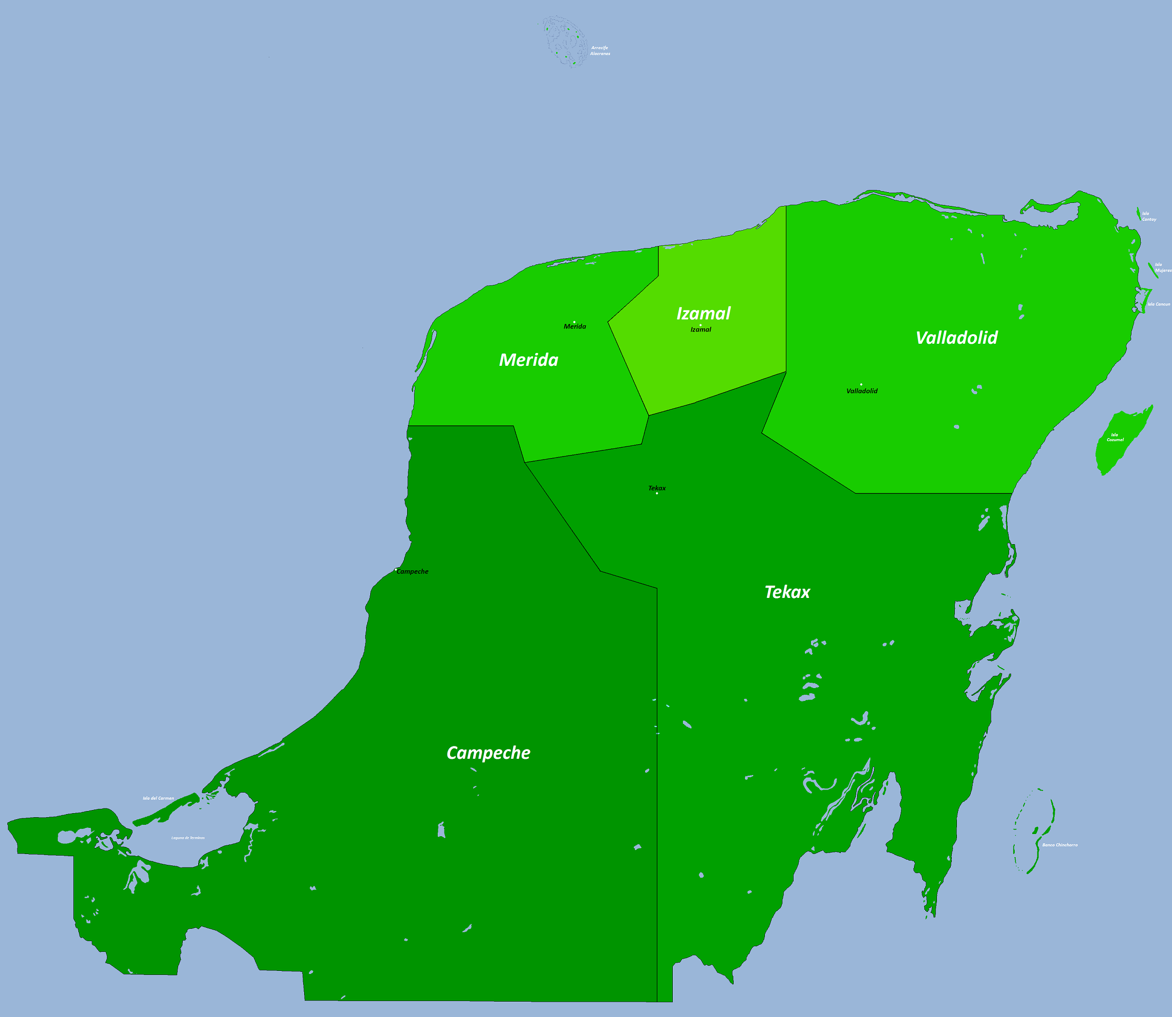 Republic of Yucatan Districts